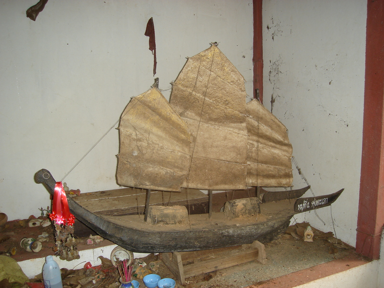 in Ban Khung Taphao Khung Taphao subdistrict, Mueang Uttaradit, Uttaradit Province, Thailand.)